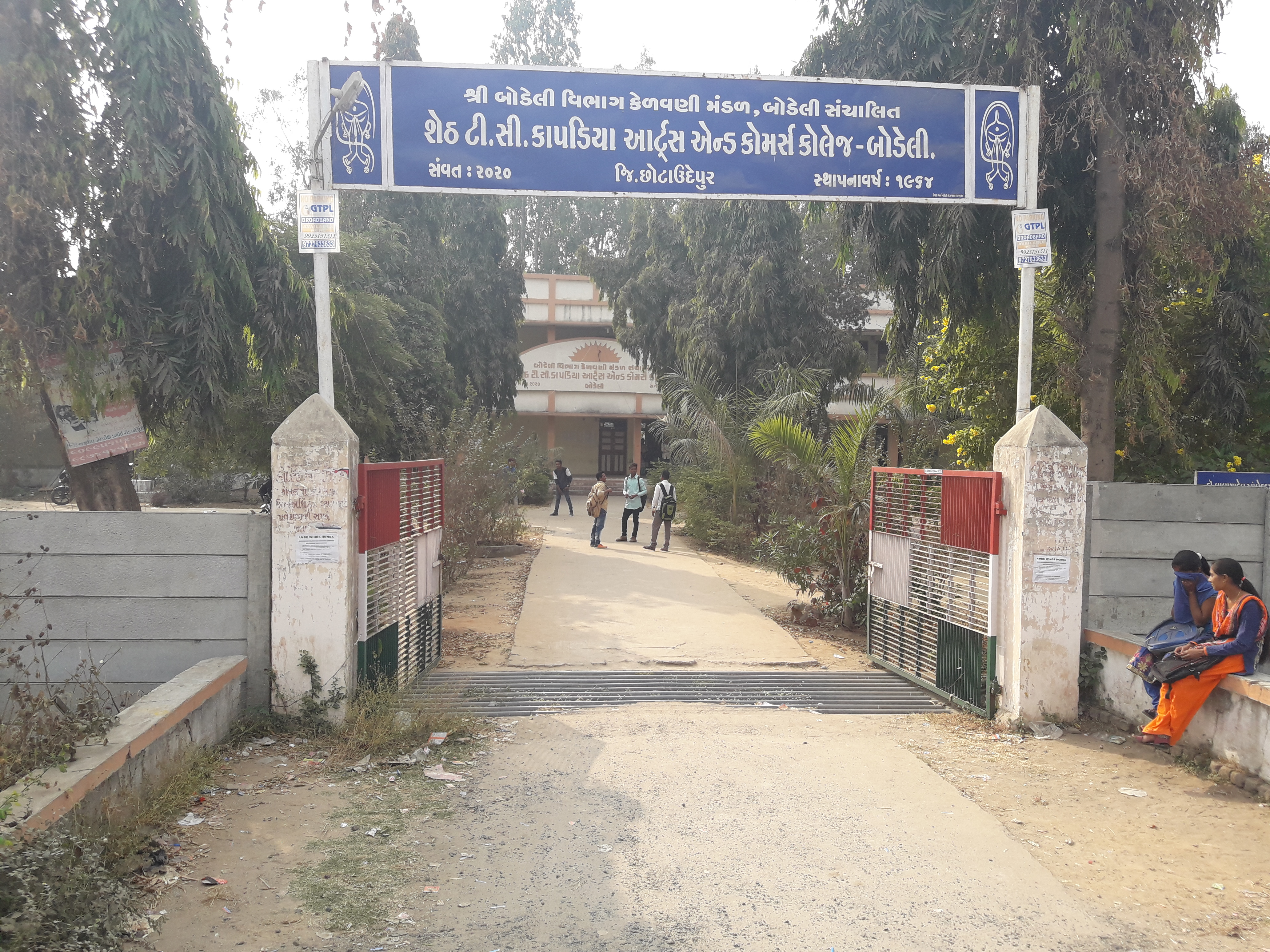 T. C. Kapadia Arts and Commerce College at Bodeli, Gujarat, India; established in 1964